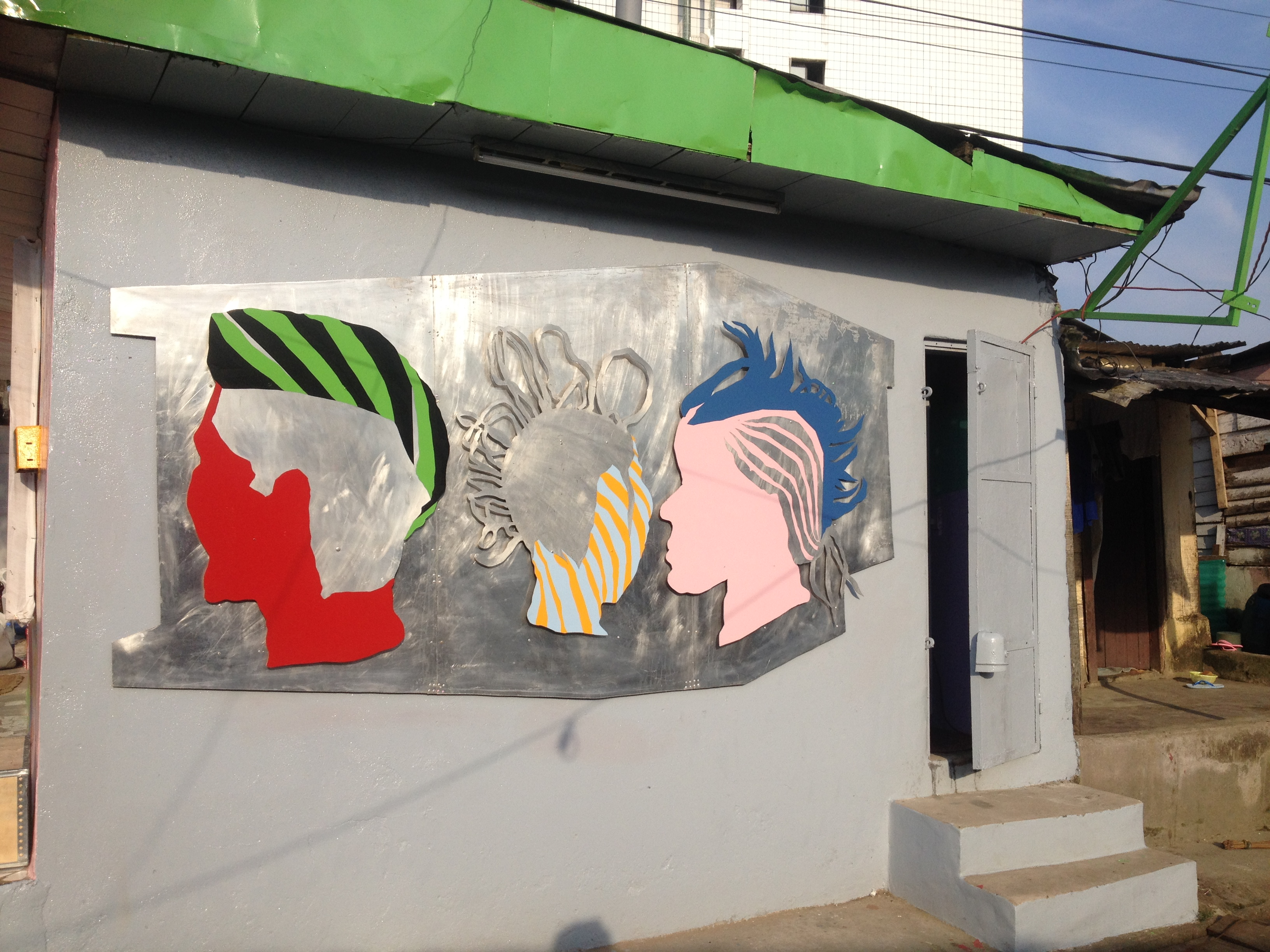 Boris Nzebo, Têtes de rêve. Artwork produced during the SUD Salon Urbain de Douala 2013.